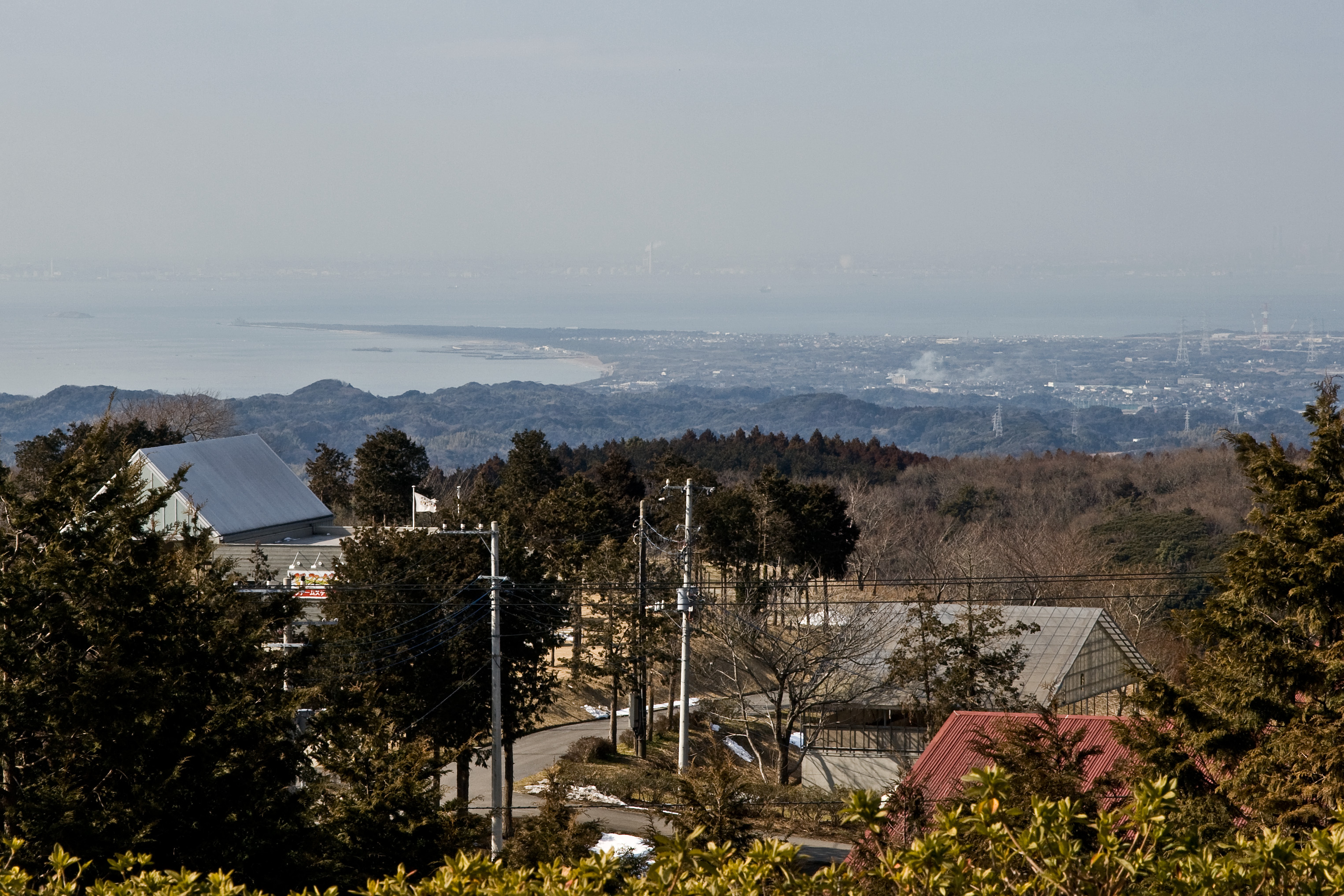 Cape Futtsu, Chiba pref, Japan.